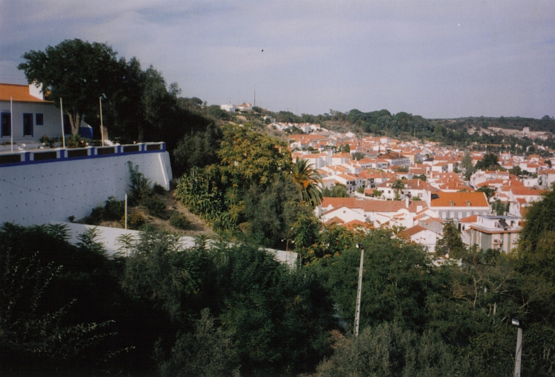 Town of Coruche, Portugal